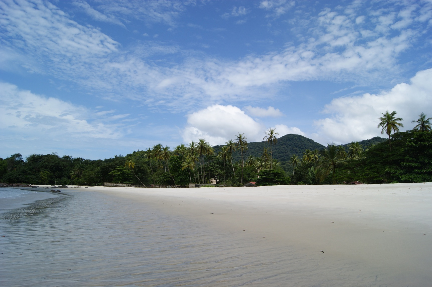 arguably the most beautiful beach in west Africa and just an hour's drive from Freetown.